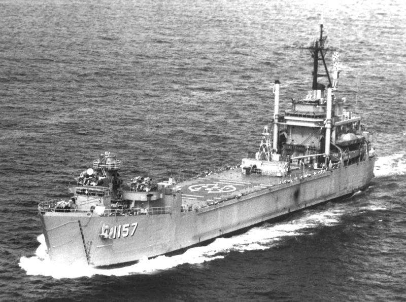 USS Terrell County (LST-1157), date and place unknown. US Navy photo.